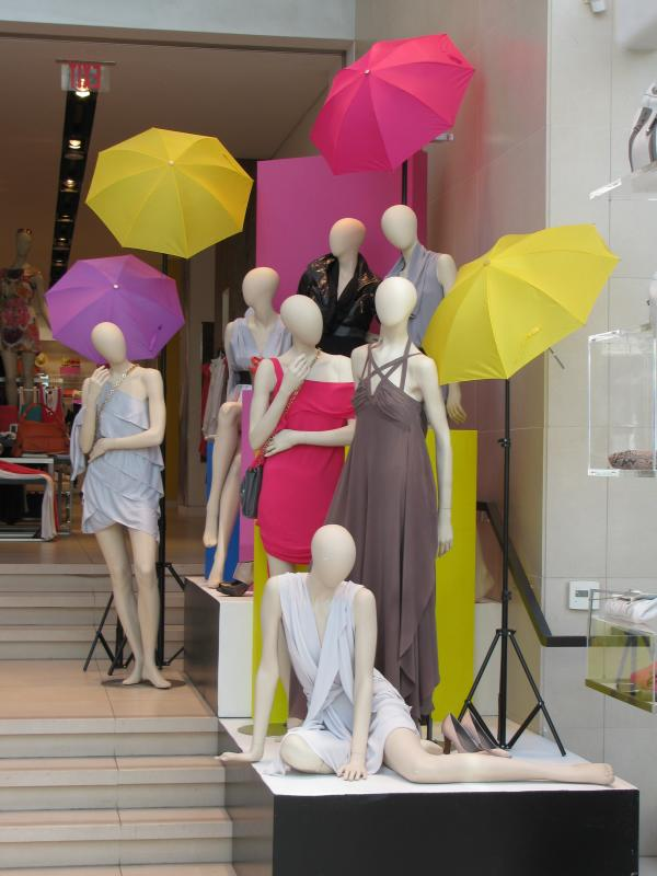 Mannequinns wearing Max Azria's collection at BCBG.